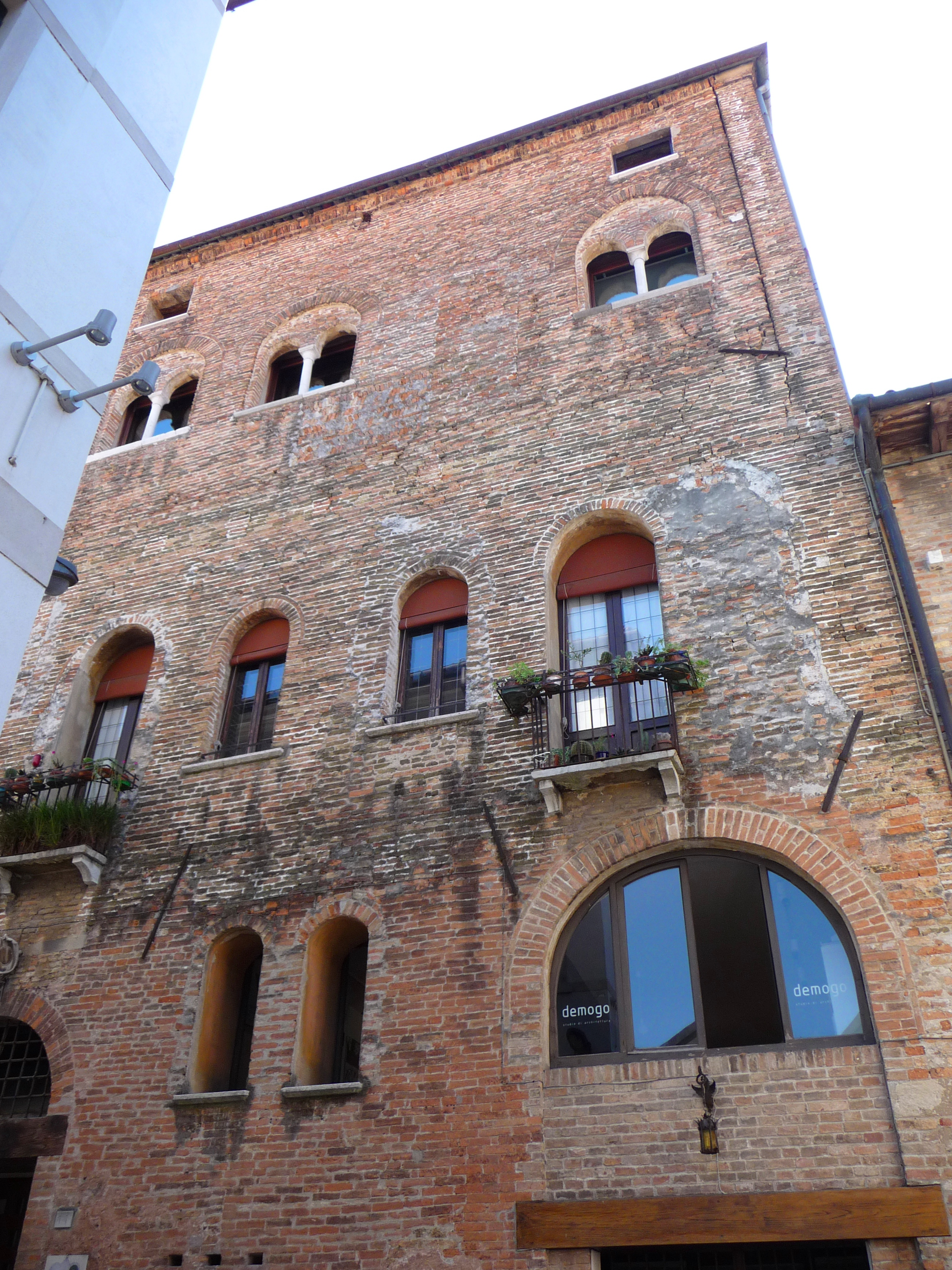 Torre del Visdomino (Visdomino tower) in Treviso